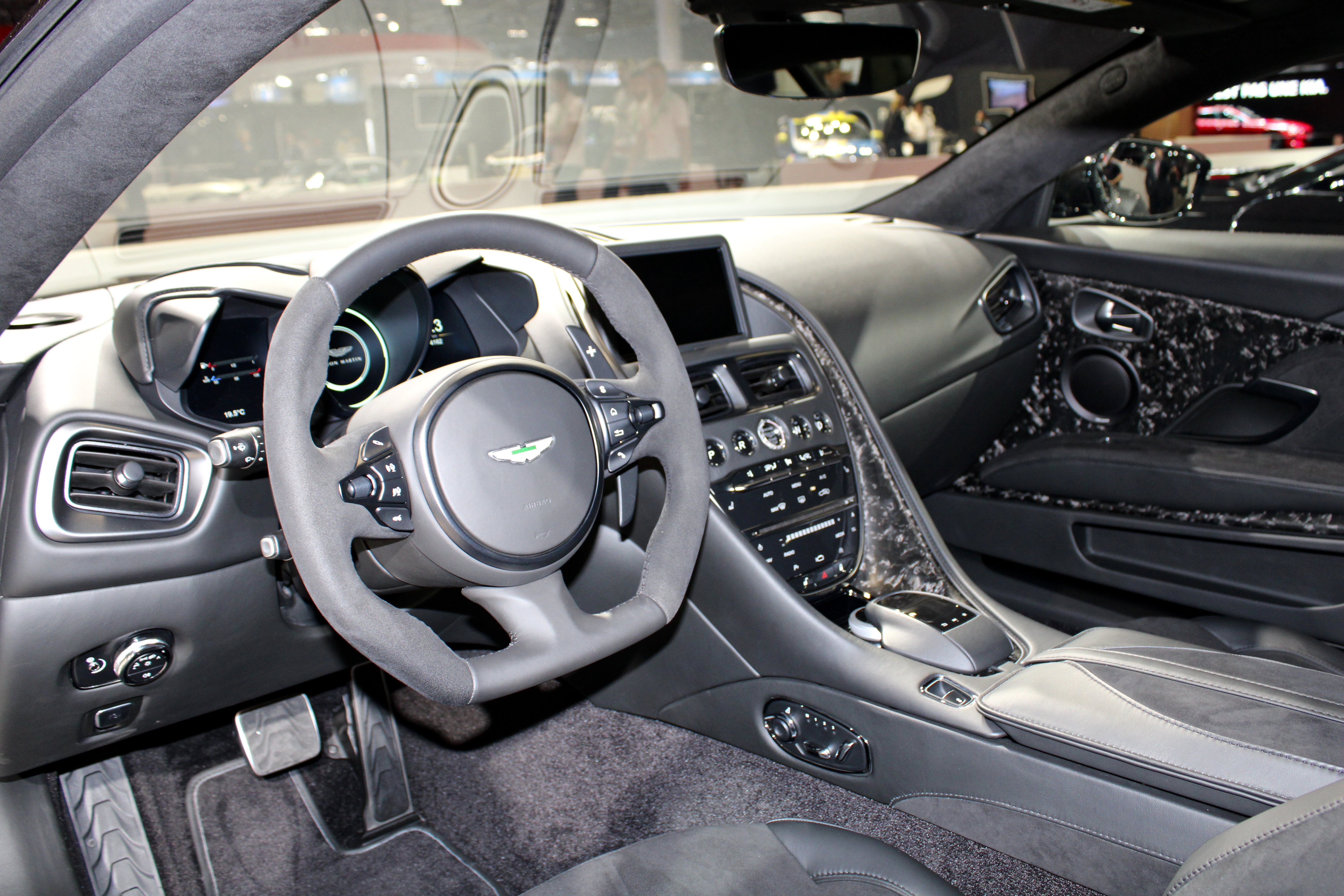 Aston Martin DBS Superleggera at Paris Motor Show 2018